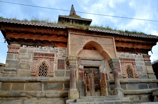 This picture was taken from the street in front of the Madin Sahib Mosque, Srinagar, Kashmir